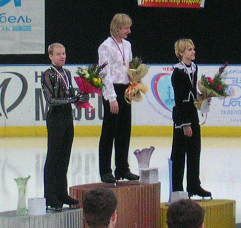 Men podium of Russian National Figure Skating Championchips 2004